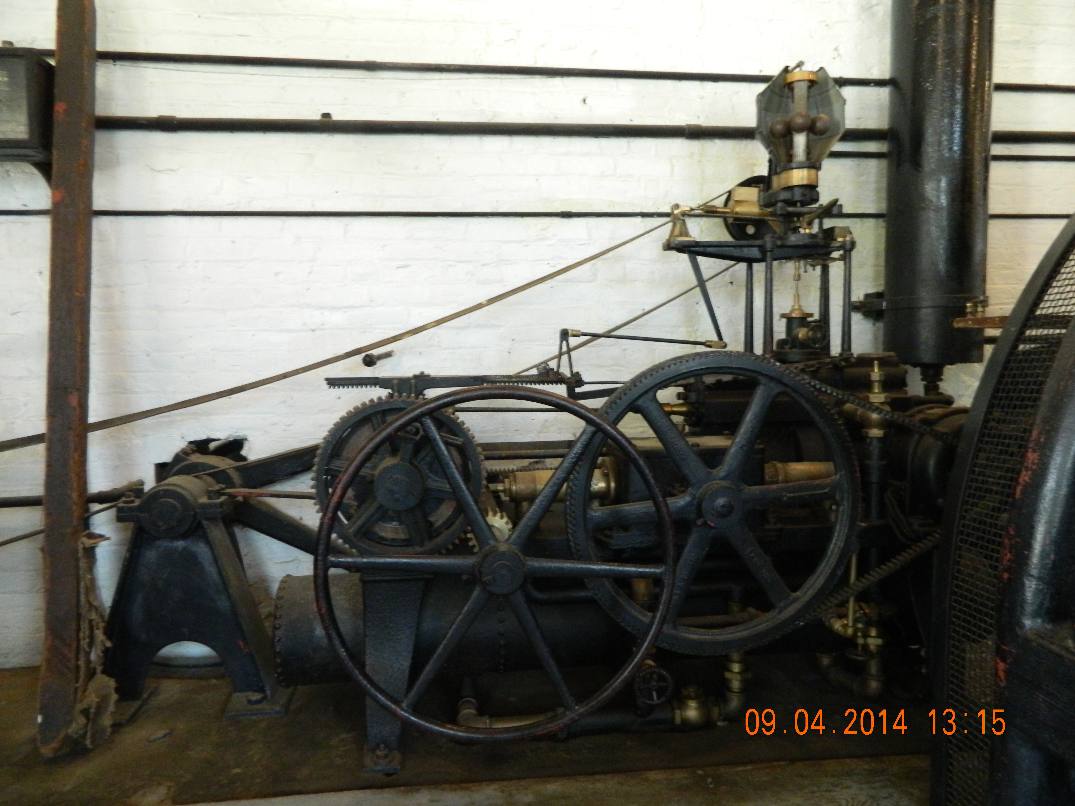 Upper House Alternator Governor, Belt Pulley input